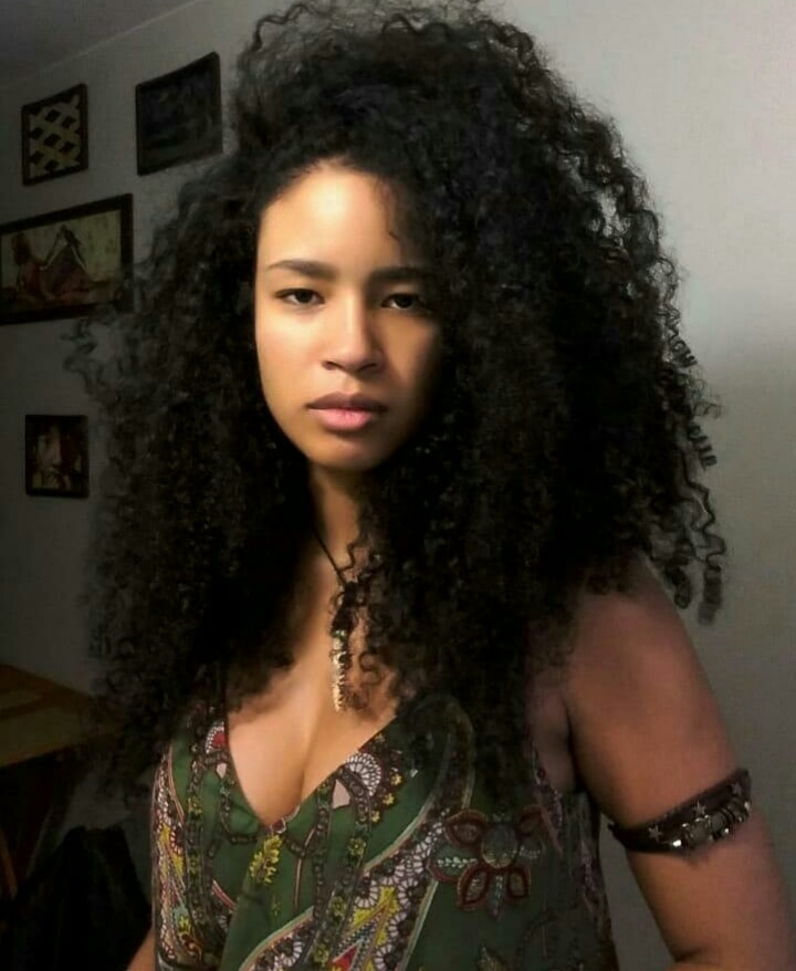 Escritora Afro-ameríndia Thaynara Henrique em Brasília